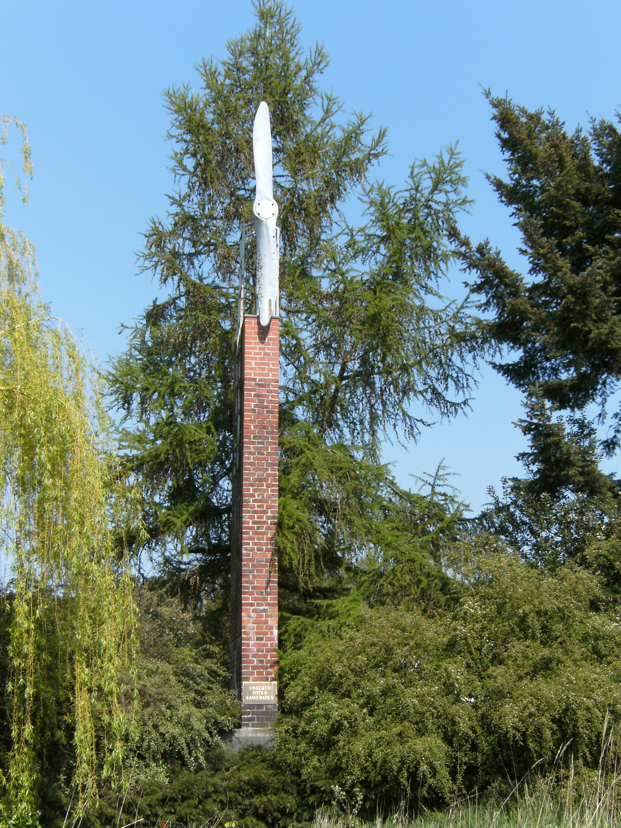 In the Wiekstraße on the Priwall, part of Travemünde, Germany a monument reminds the persons killed at Seeflugzeug-Erprobungsstelle Travemünde (proving-flights of seaplanes).